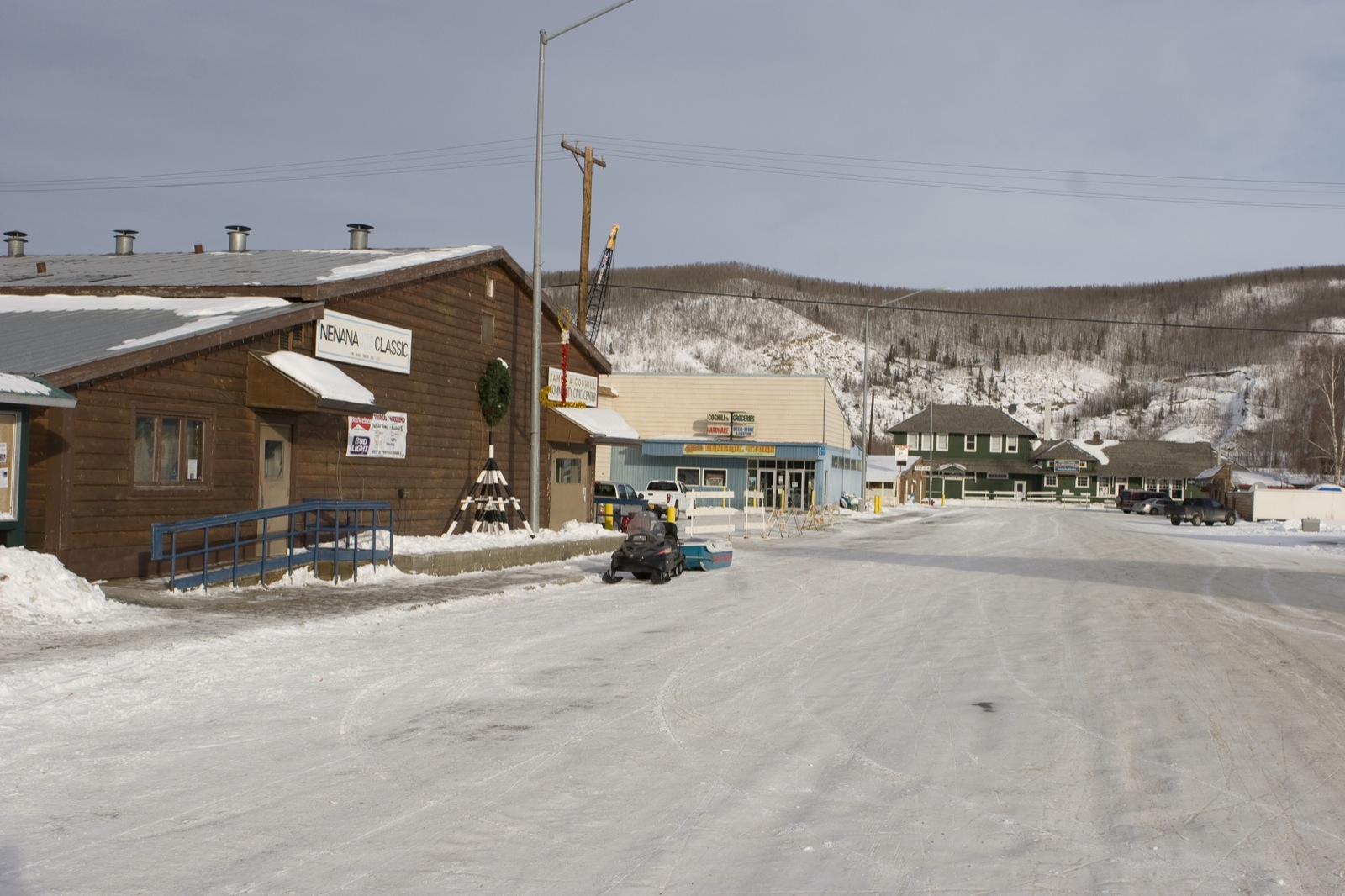 Nenana Alaska during the tripod festival in the first week of March.